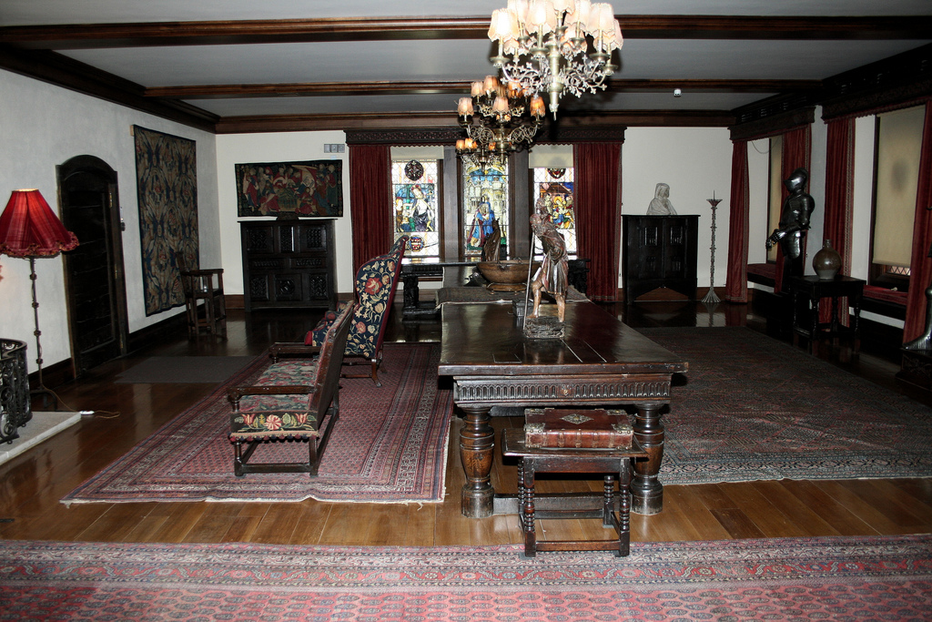 Reconstruction of Sir William Burrell's drawing room; part of the Burrell Collection in Glasgow